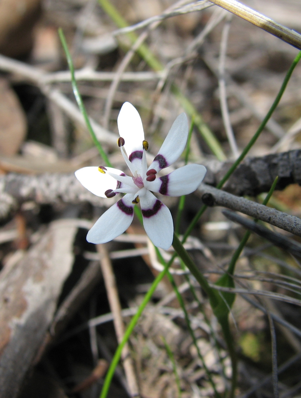 Wurmbea dioica Paddys Ranges State Park, Victoria, Australia